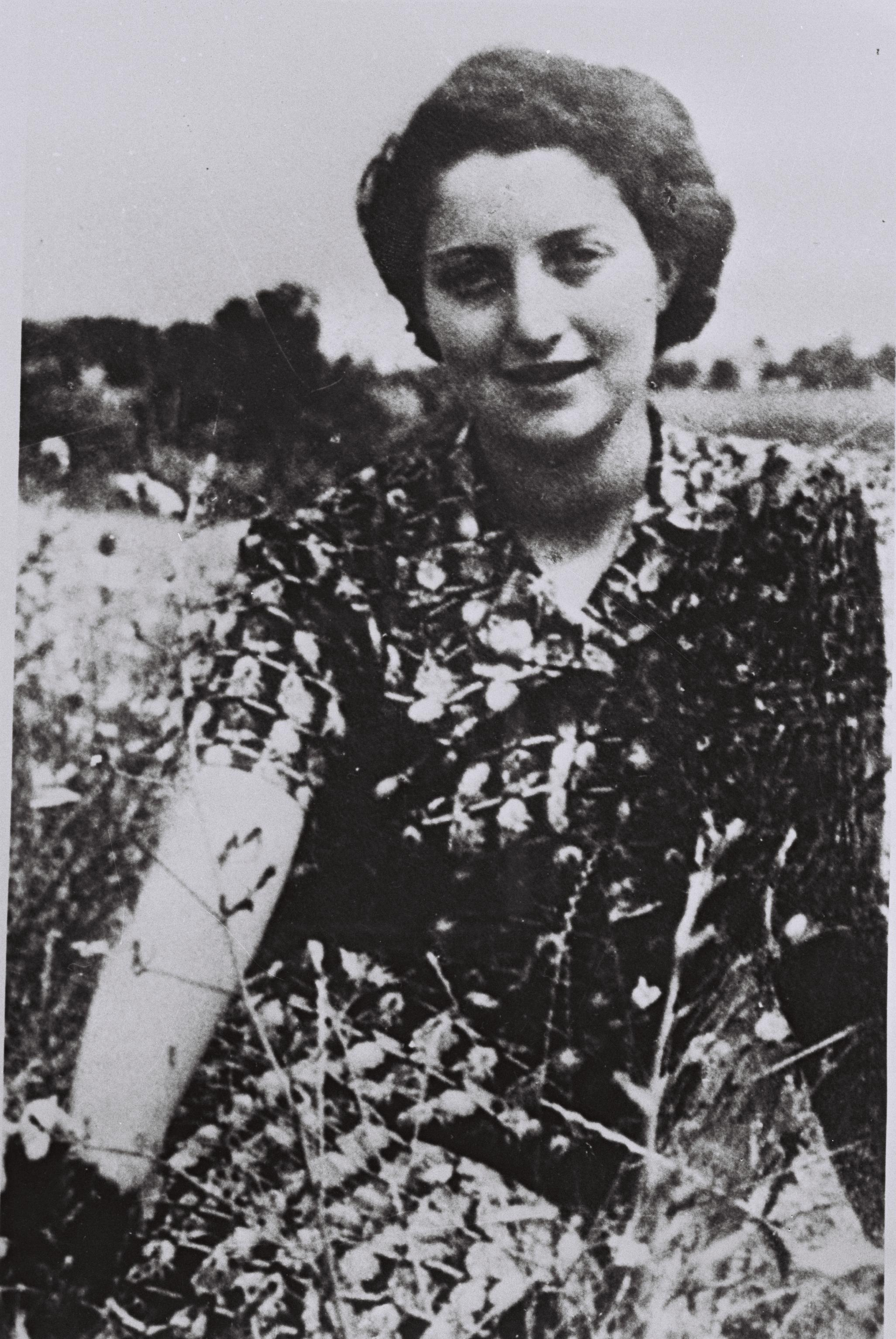 Hannah Szenes in kibbutz Sdot Yam